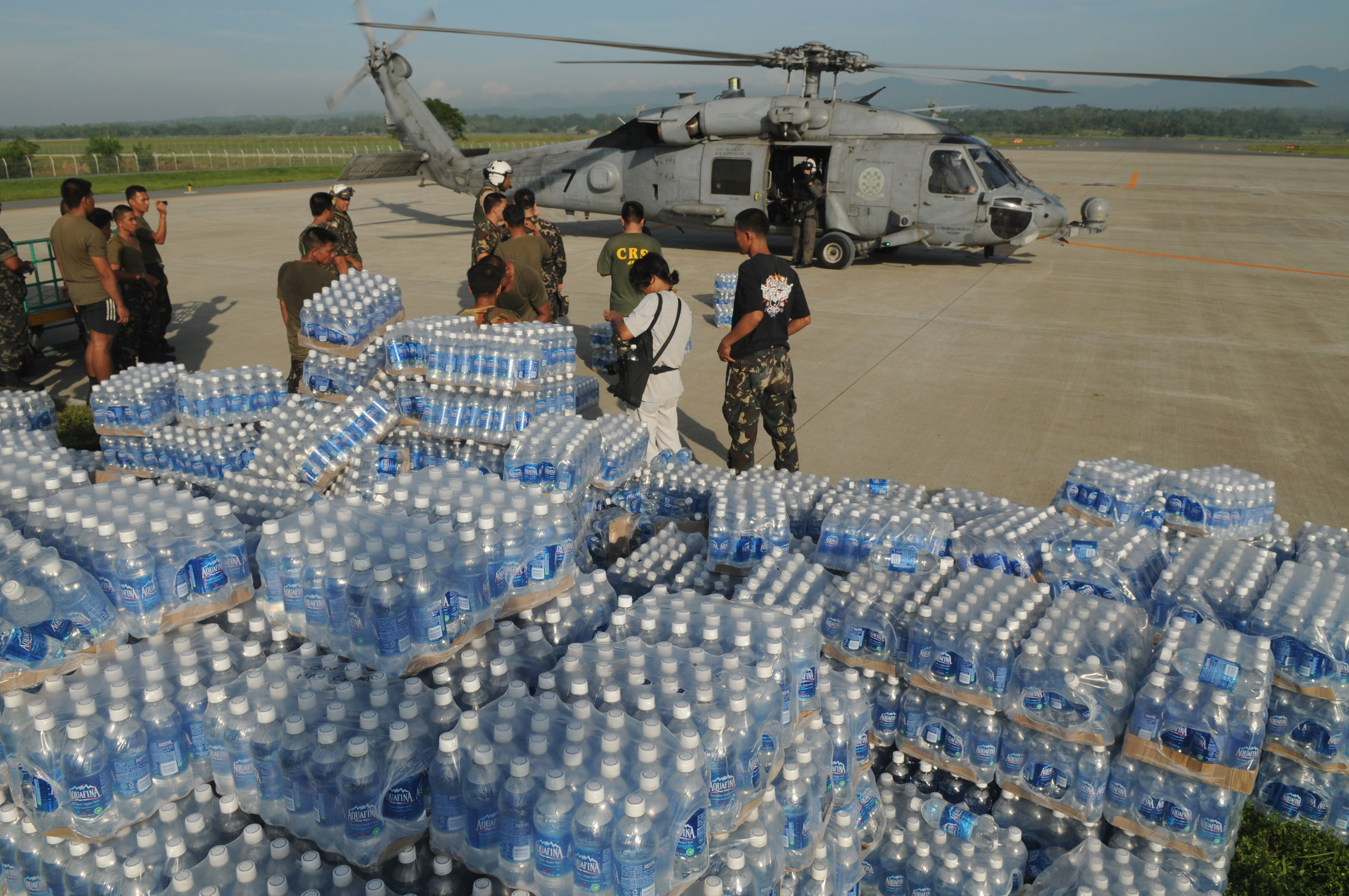 PHILIPPINES (June 26, 2008) Bottles of water transported from the Nimitz-class aircraft carrier USS Ronald Reagan (CVN 76) wait to be delivered to devastated areas in the Republic of the Philippines caused by Typhoon Fengshen after Armed Forces of the Philippines (AFP) and U.S. Navy personnel unloaded it from an SH-60F Seahawk assigned to the "Black Knights" of Helicopter Anti-Submarine Squadron (HS) 4. At the request of the government of the Republic of the Philippines, Ronald Reagan is off the coast of Panay Island providing humanitarian assistance and disaster response. Ronald Reagan and other U.S. Navy ships are operating in the 7th Fleet area of responsibility to promote peace, cooperation and stability. U.S. Navy photo by Mass Communication Specialist 2nd Class Joe Painter (Released)